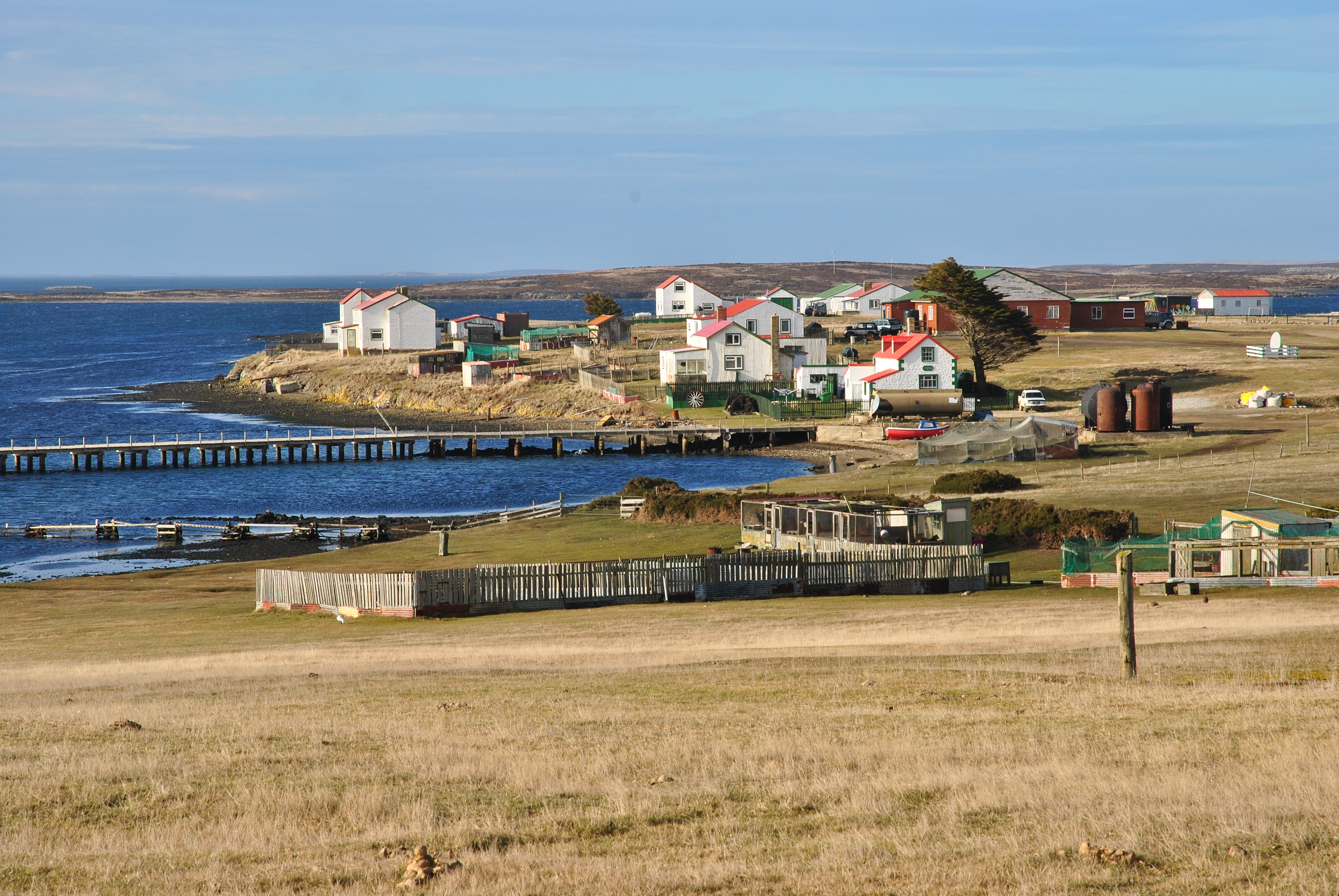 The view of Goose Green taken on a very sunny morning !